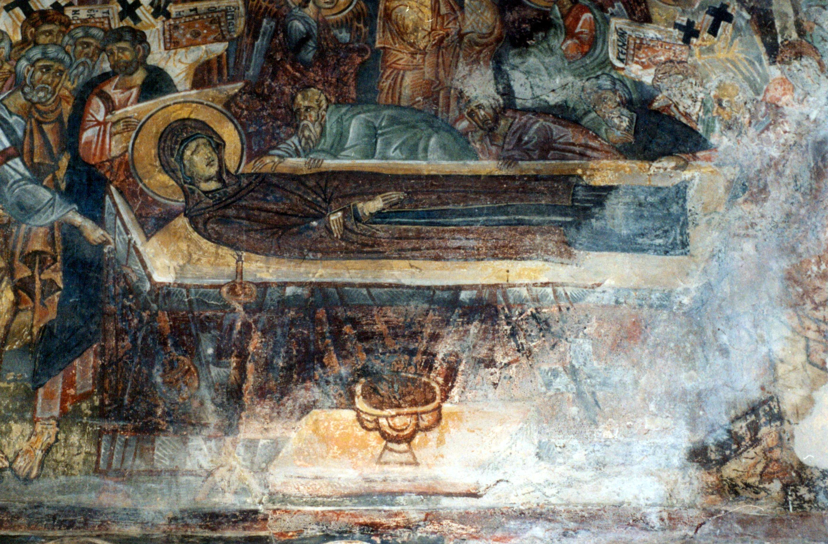 Sts Constantine and Helena Church in Ohrid Fresco